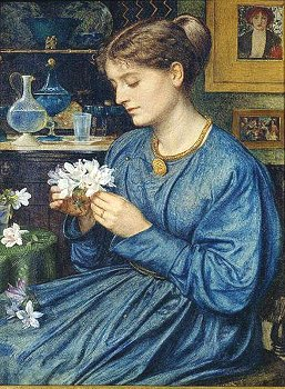 A portrait of Agnes Macdonald shortly before her marriage in Wolverhampton